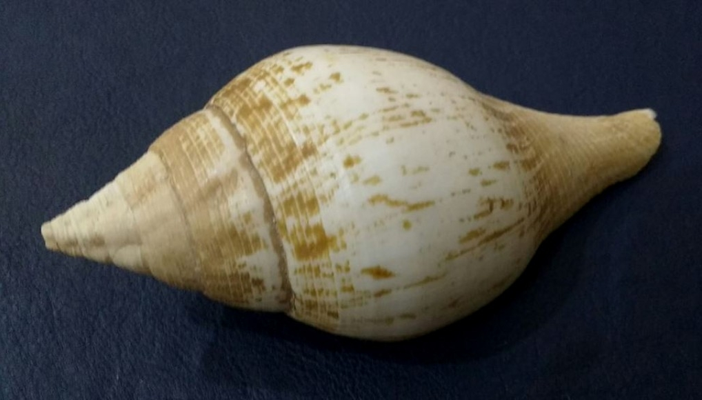 A shell of the marine gastropod mollusk Turbinella laevigata Anton, 1838[1] collected in the northeast coast of Brazil. Upper view.